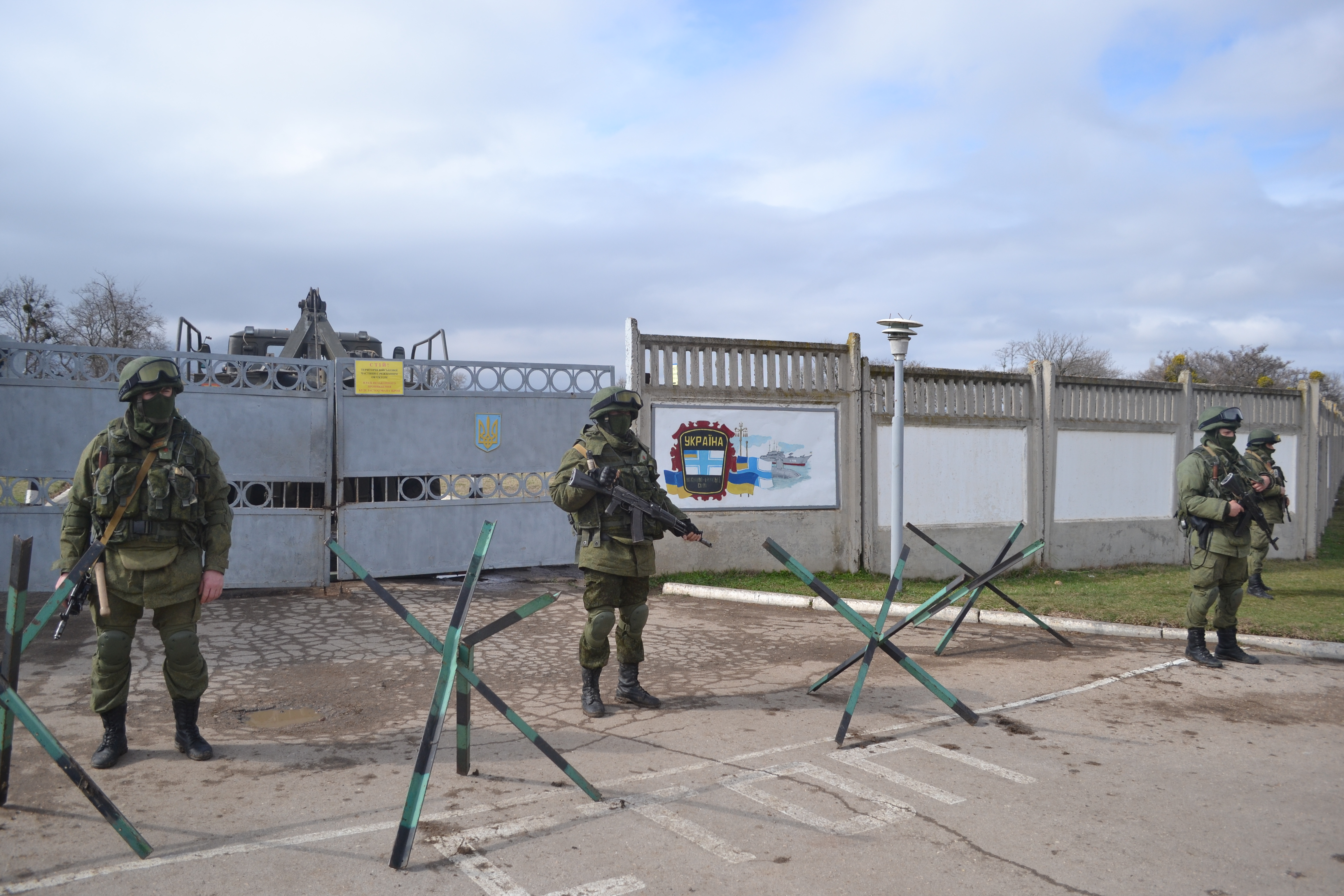 Military base at Perevalne during the 2014 Crimean crisis.